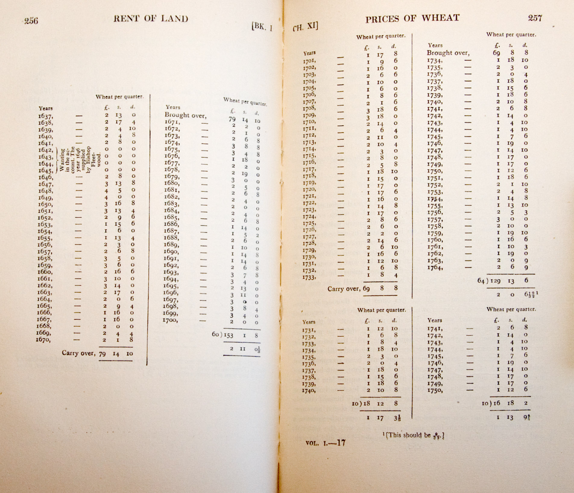 Prices of Wheat between 1637 and 1750, taken from Adam Smith, Wealth of Nations, I.xi